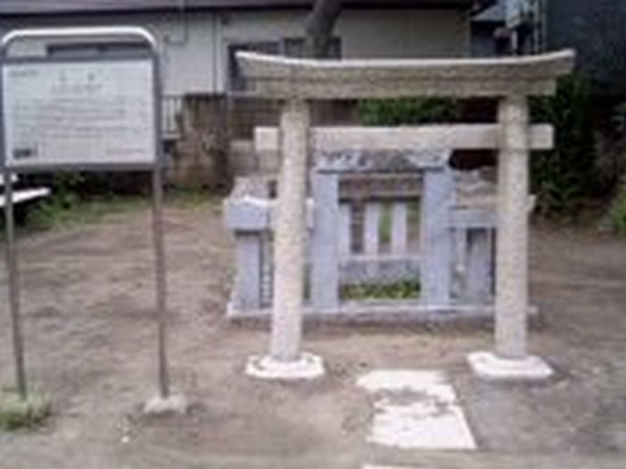 The tiny Tateishi-sama stone monument in Katsushika Ward, Tokyo, Japan, visible inside the fence behind the torii